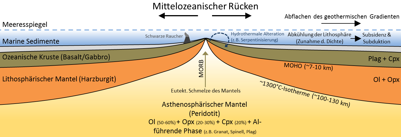 Schematic 2D-illustration of a mid-oceanic ridge.